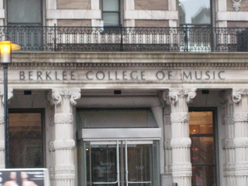 This is the photo of Berklee College of Music in Boston, USA.